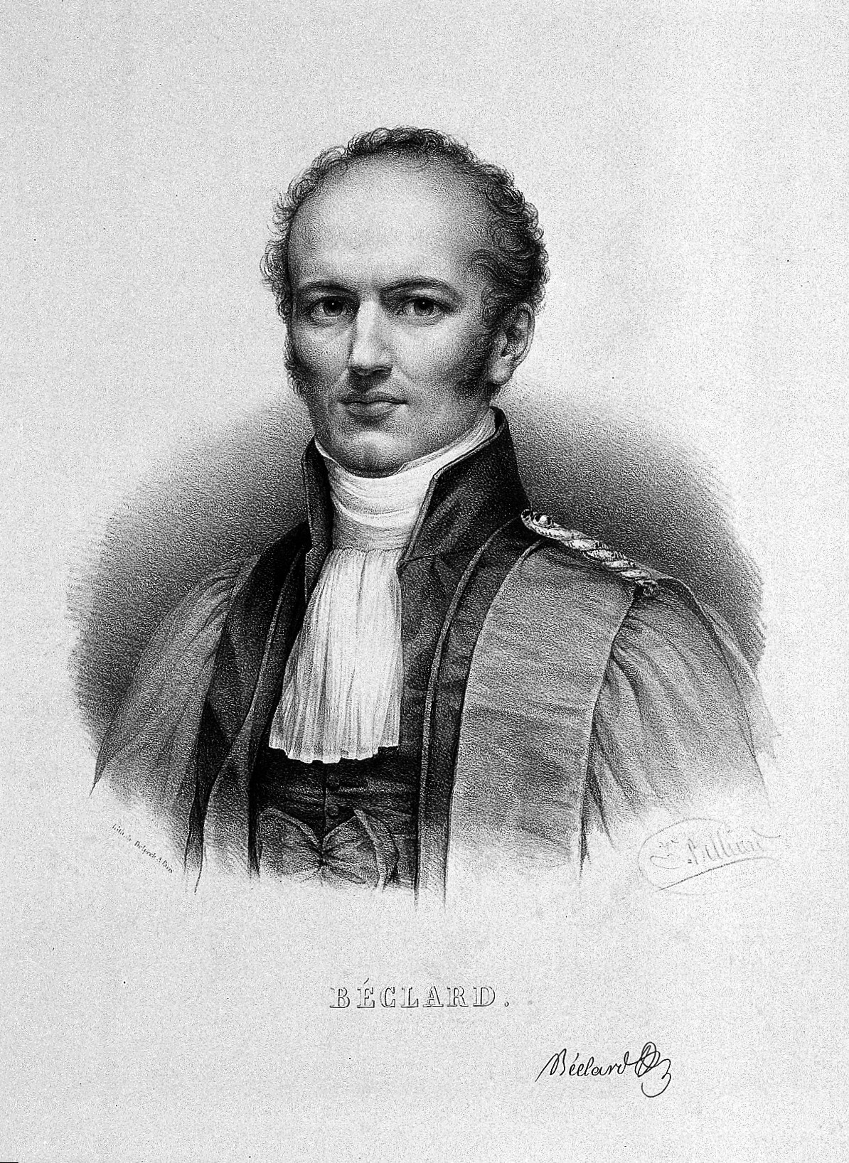 Pierre Auguste Beclard (1785-1835) Iconographic Collections Keywords: Pierre Auguste Beclard; Zephirin-Felix-Jean-Marius Belliard